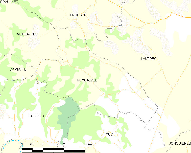 Map of French municipality Puycalvel